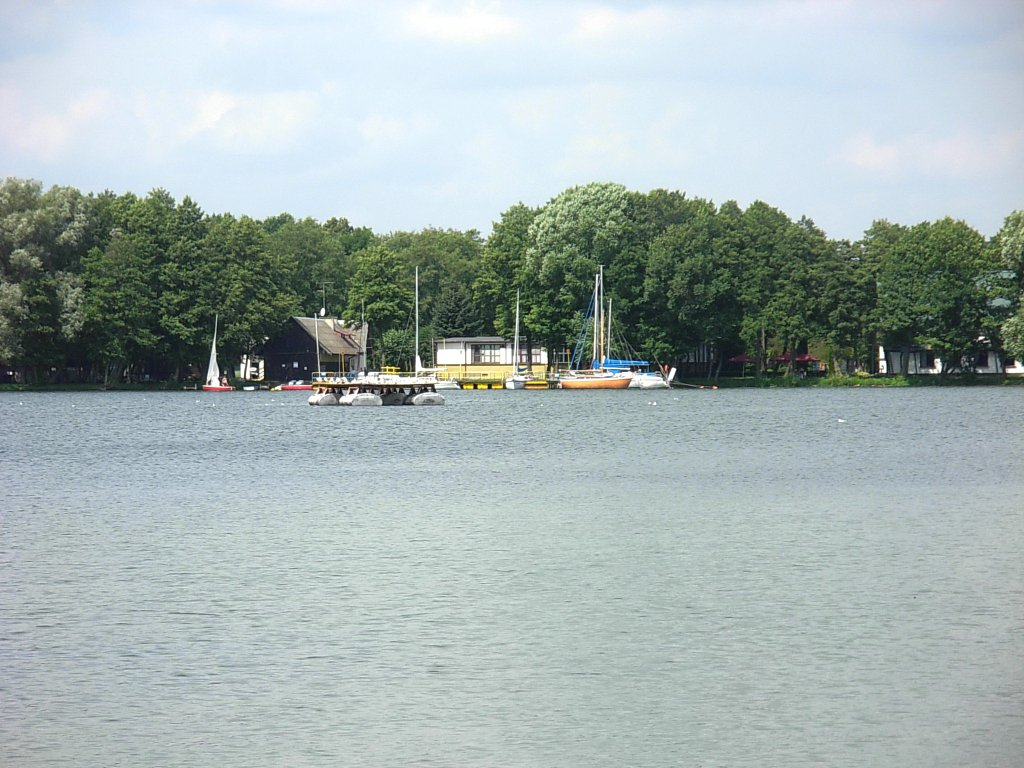 Lake Drawsko